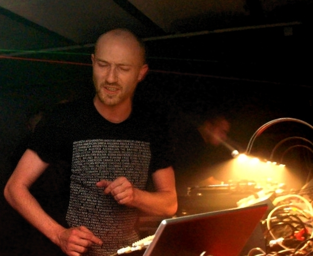 Paul Kalkbrenner: German DJ (electro/house/minimal), music producer and actor at the Old Diamond Brewery, Magdeburg, 19th May 2007